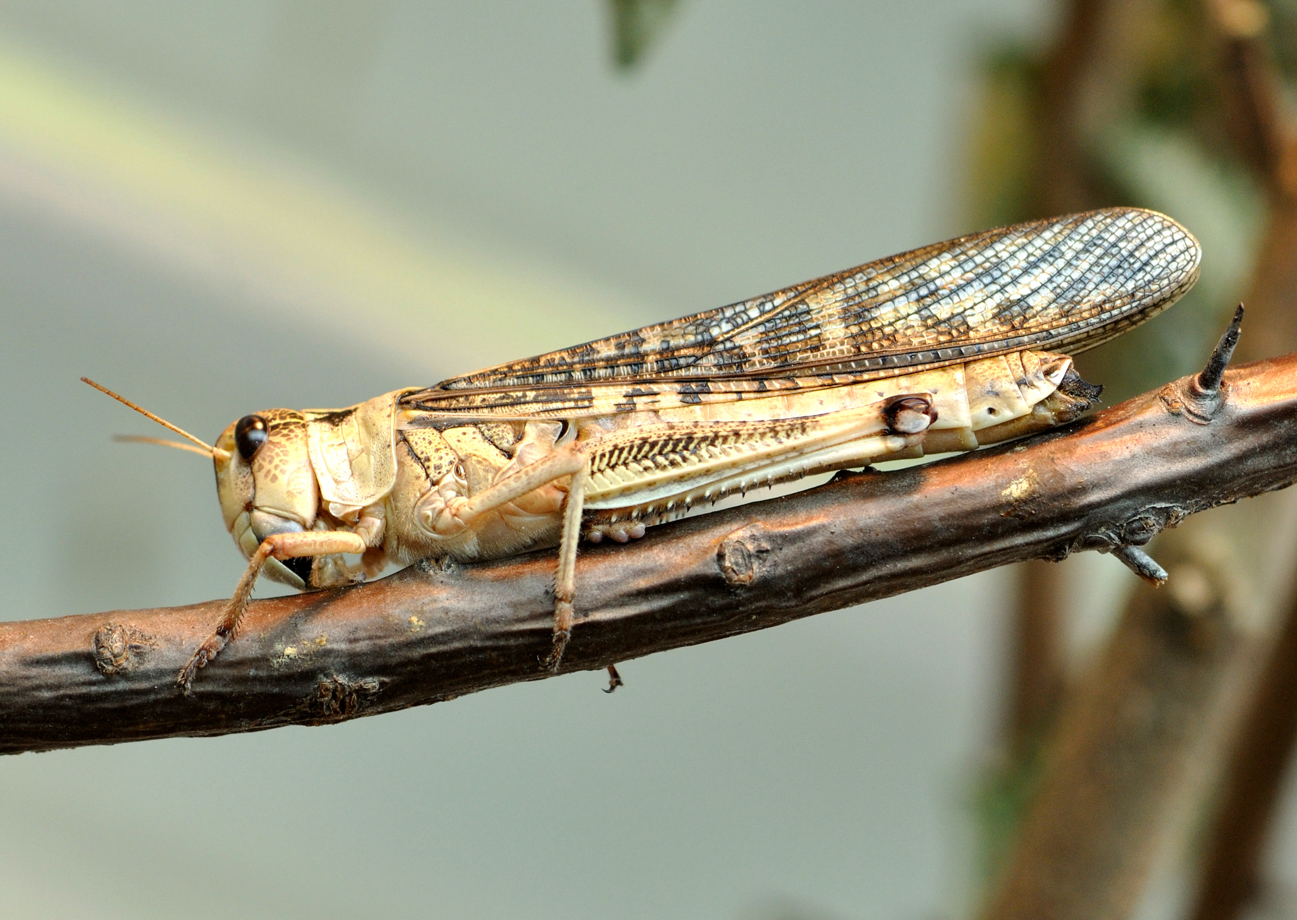 Migratory locust (Locusta migratoria) in the Frankfurt Zoo.